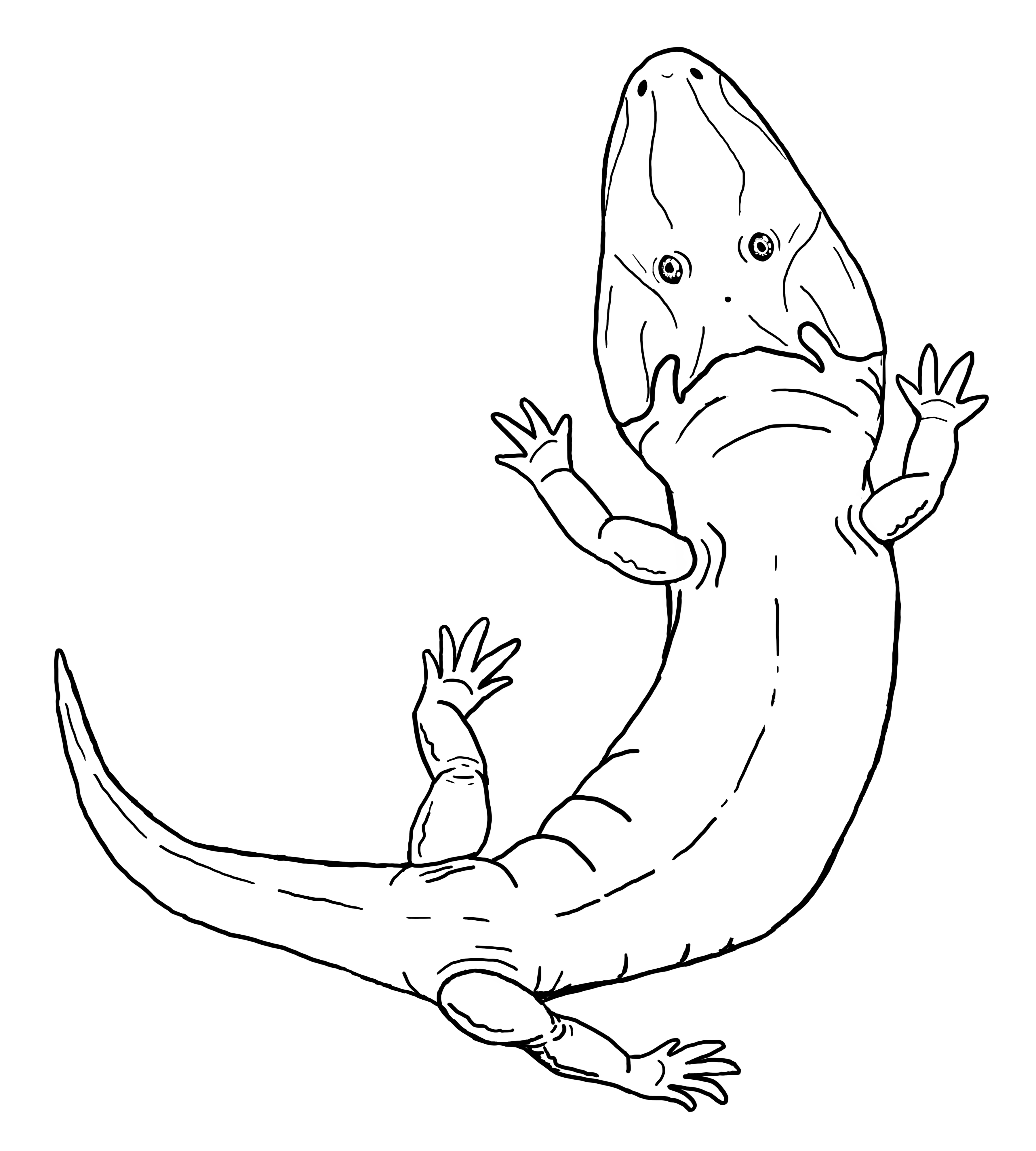 Life restoration of Rhineceps nyasaensis. Based on Figure 6 of "The evolution of the labyrinthodonts" by D. M. S. Watson (Philosophical Transactions of the Royal Society of London 245(723): 219-265).